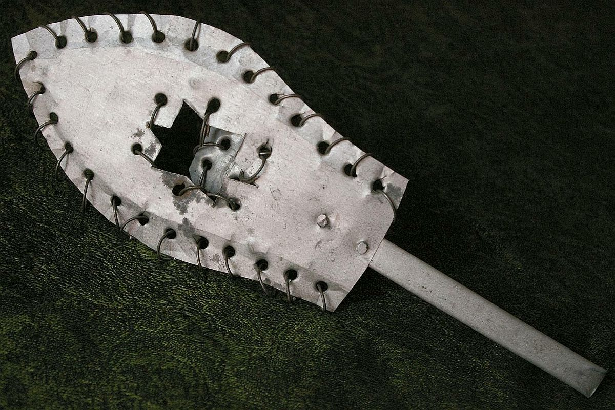 West-African djembé kessing